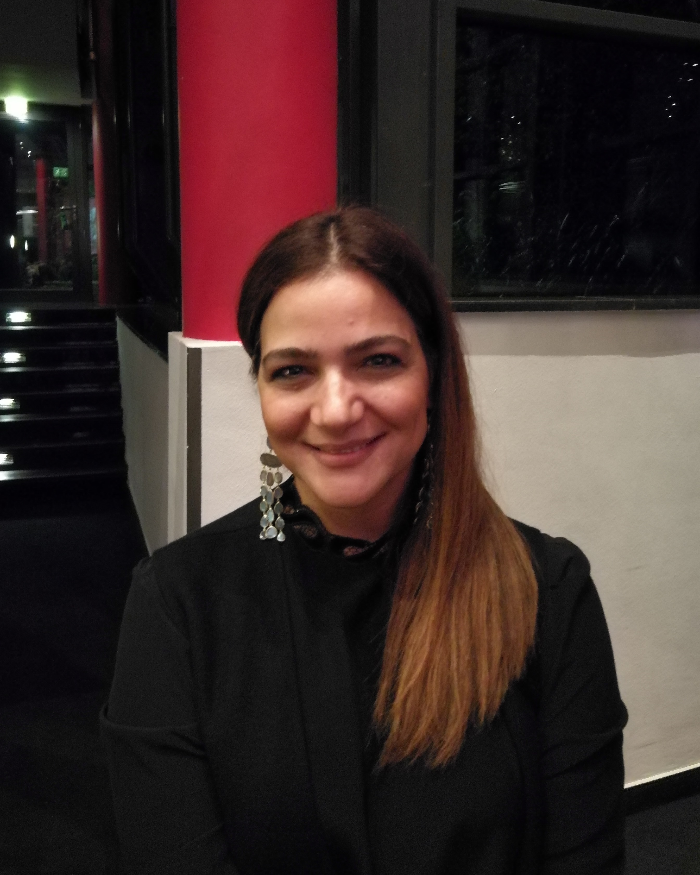 Lebanese director Sophie Boutros at the Filmfest Hamburg, Hamburg, Germany, October 2017.